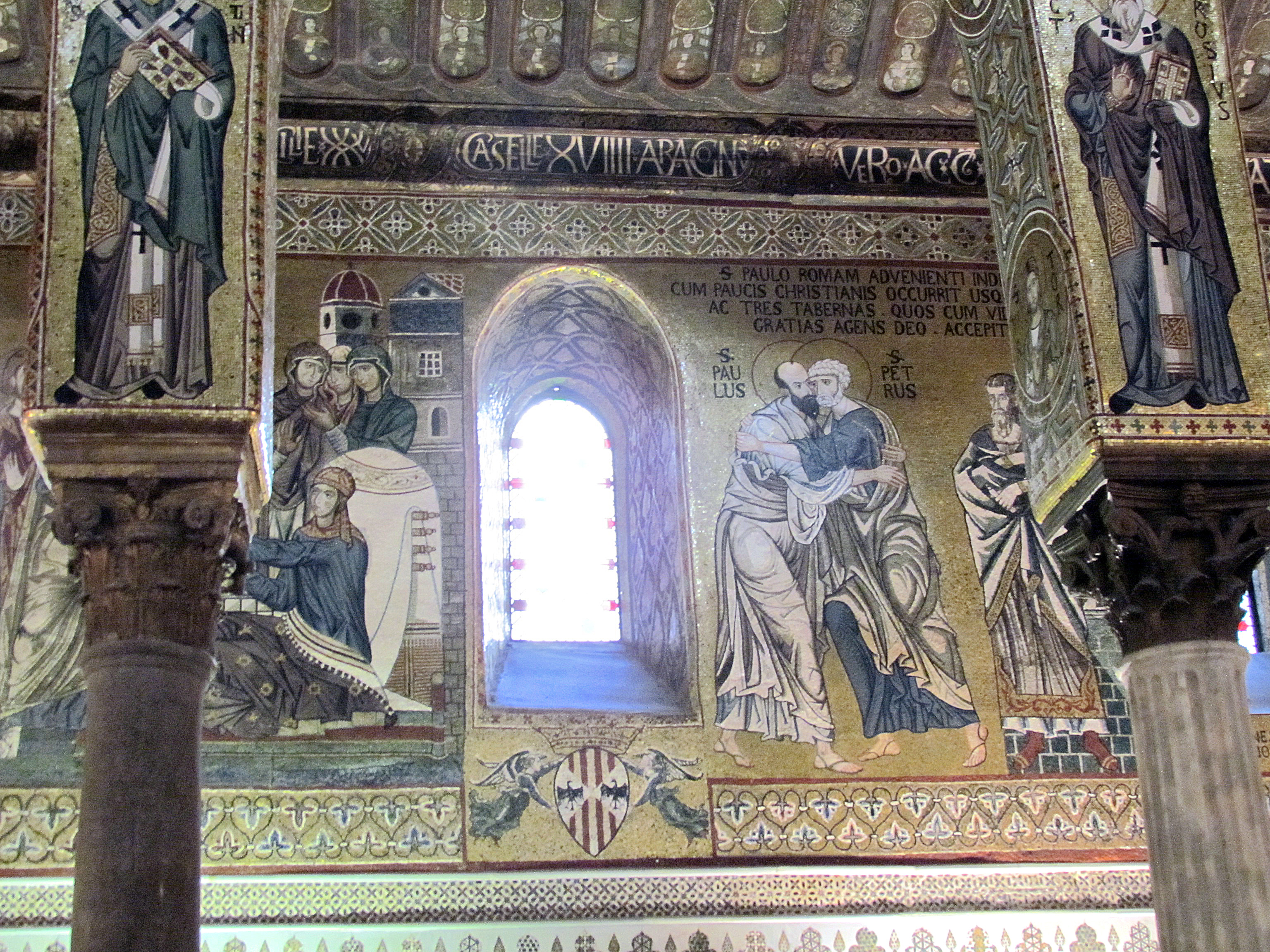 Saint Peter and Saint Paul (mosaic in Cappella Palatina, Palermo)